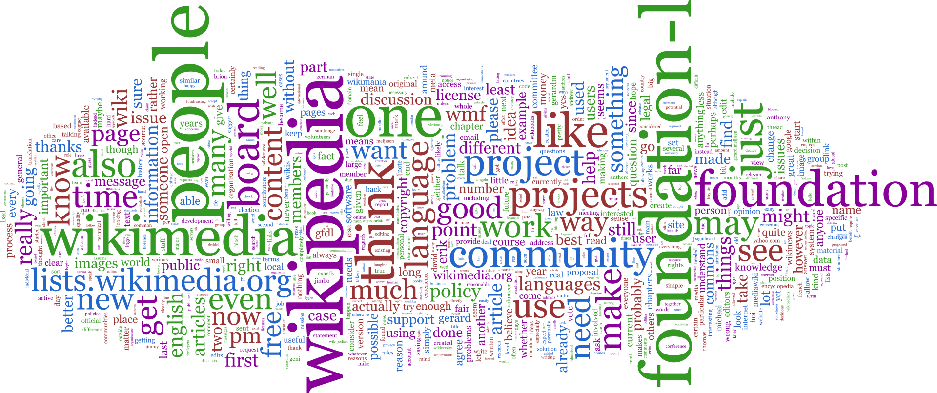 foundation-l word cloud, created with the complete gzip'ed list archives (without duplicate emails from archives and all headers and quoted text in body), using IBM Word Cloud Generator, build 32, with this config: font: dejavu-fonts-ttf-2.31/ttf/DejaVuSans.ttf format: text inputencoding: UTF-8 firstline: data wordcolumn: 1 weightcolumn: 2 colorcolumn: 3 casefold: Lower background: FFFFFF palette: 880099, 339922, 993333, 2266CC maxwords: 1000 placement: HorizontalCenterLine shape: SQUARISH orientation: HALF_AND_HALF stopwords: English stopwordsencoding: UTF-8 stripnumbers: false and the following stopwords: 01 02 03 04 05 06 07 08 09 10 11 12 13 14 15 16 17 18 19 20 21 22 23 24 25 26 27 28 29 30 31 1alnuq-0007hv-00 7bit albert.pmtpa.wmnet authentication-results charset content-disposition content-transfer-encoding content-type date delivered-to en-us envelope-from errors-to esmtp etc exim flowed format from id inline in-reply-to iso-8859-1 list list-archive list-help list-id list-post list-subscribe list-unsubscribe mailing mailman/mimedel mailto: mailto: mailto: mailto: message-id mime-version pdt postfix precedence pst quoted-printable re received received-spf references reply-to return-path sender smtp subject subscribe to unsubscribe user-agent wrote x-account-key x-beenthere x-complaints-to x-content-filtered-by x-gmane-nntp-posting-host x-google-sender-auth x-list-received-date x-mailman-version x-mozilla-keys x-mozilla-status x-mozilla-status2 x-original-to x-uidl yahoo